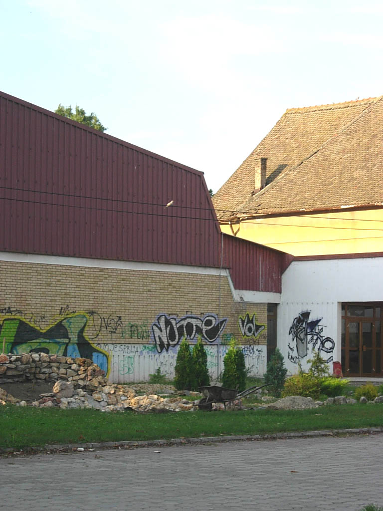 Sports centre in Kačarevo. The razed Evangelical church stood here until the end of the 1940s.